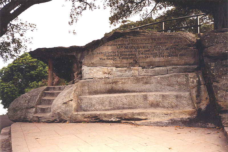 Mrs Macquarie's Chair near Sydney's Royal Botanic Gardens